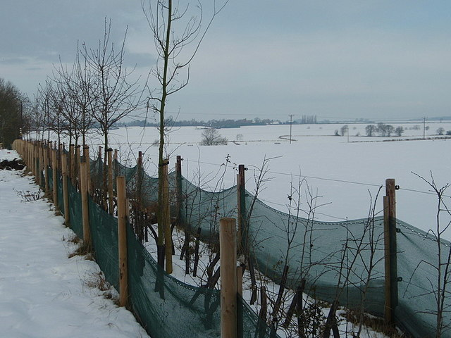 Shelter belt protection at Luddington Lodge Farm Hedge and tree saplings afforded some protection from the winter weather. Thurning is the village in the distance.